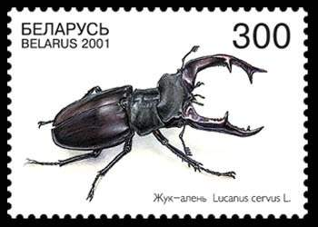 Stamp of Belarus